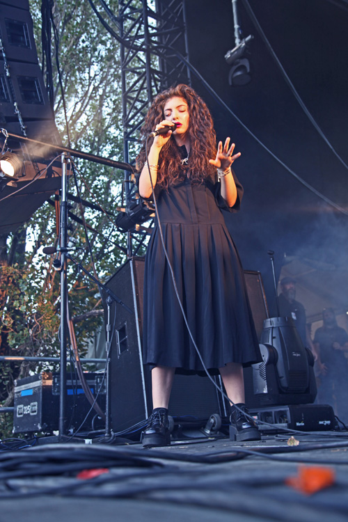 Lorde at the 2014 Sydney Laneway Festival